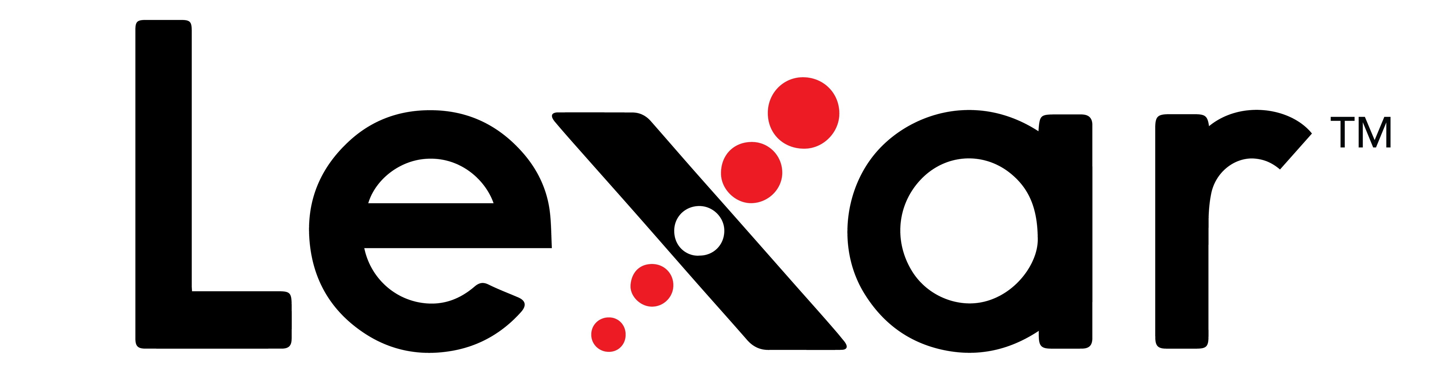 lexar